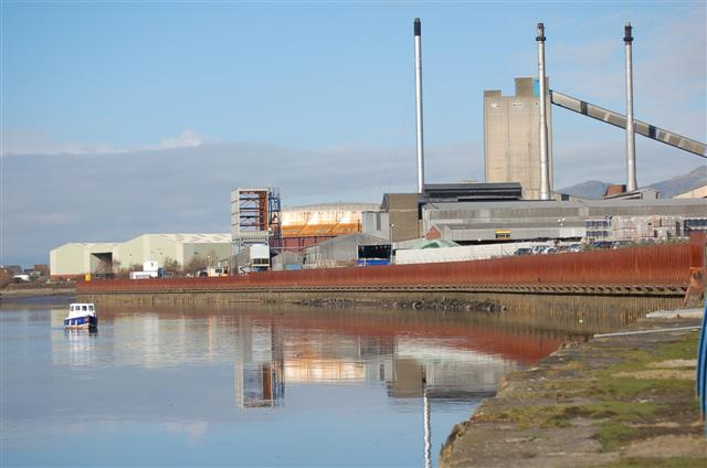 United Glass factory, Alloa, Clackmannan